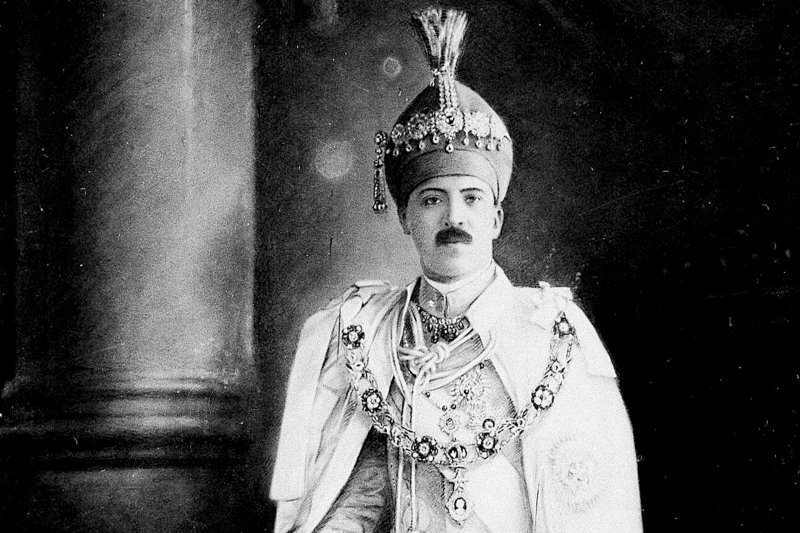 His Exalted Highness, the Nizam of Hyderabad, Osman Ali Khan, is pictured in an undated photo wearing his jubilee robes.